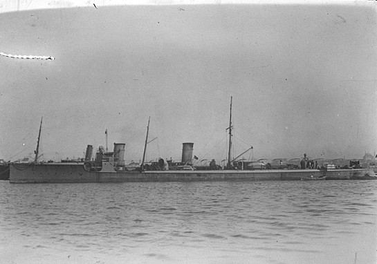 Torpedo boat Muavenet-i Milliye photographed by Sabah&Joailler ca. 1900-1919.